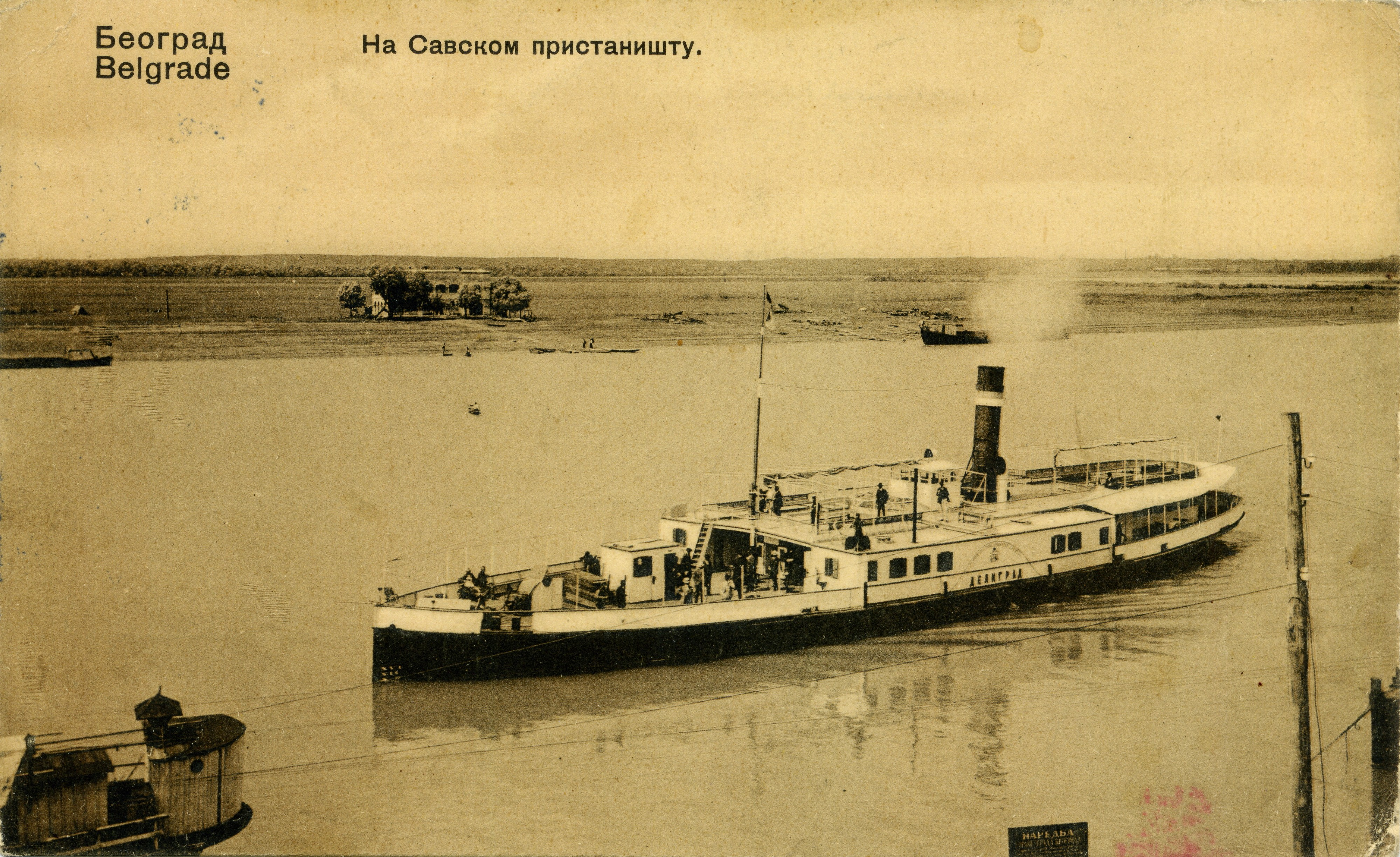 Steamboat Deligrad sails into Belgrade's Sava port, around 1911.